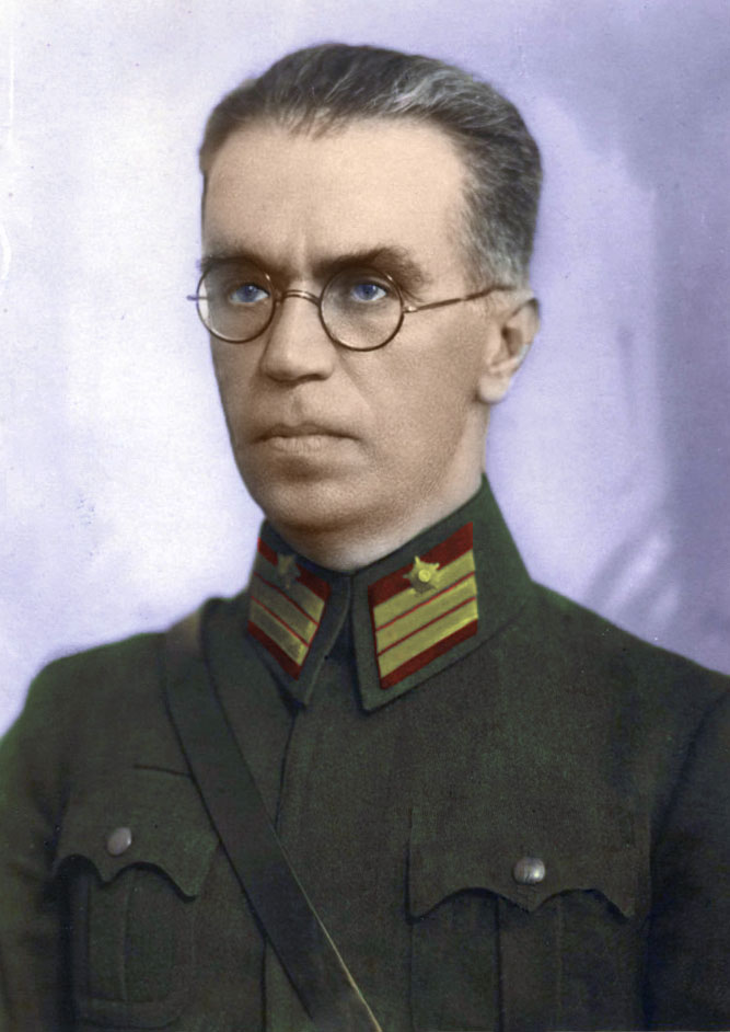 General Hayrullah Fisek 11-11-1932. Colorized.